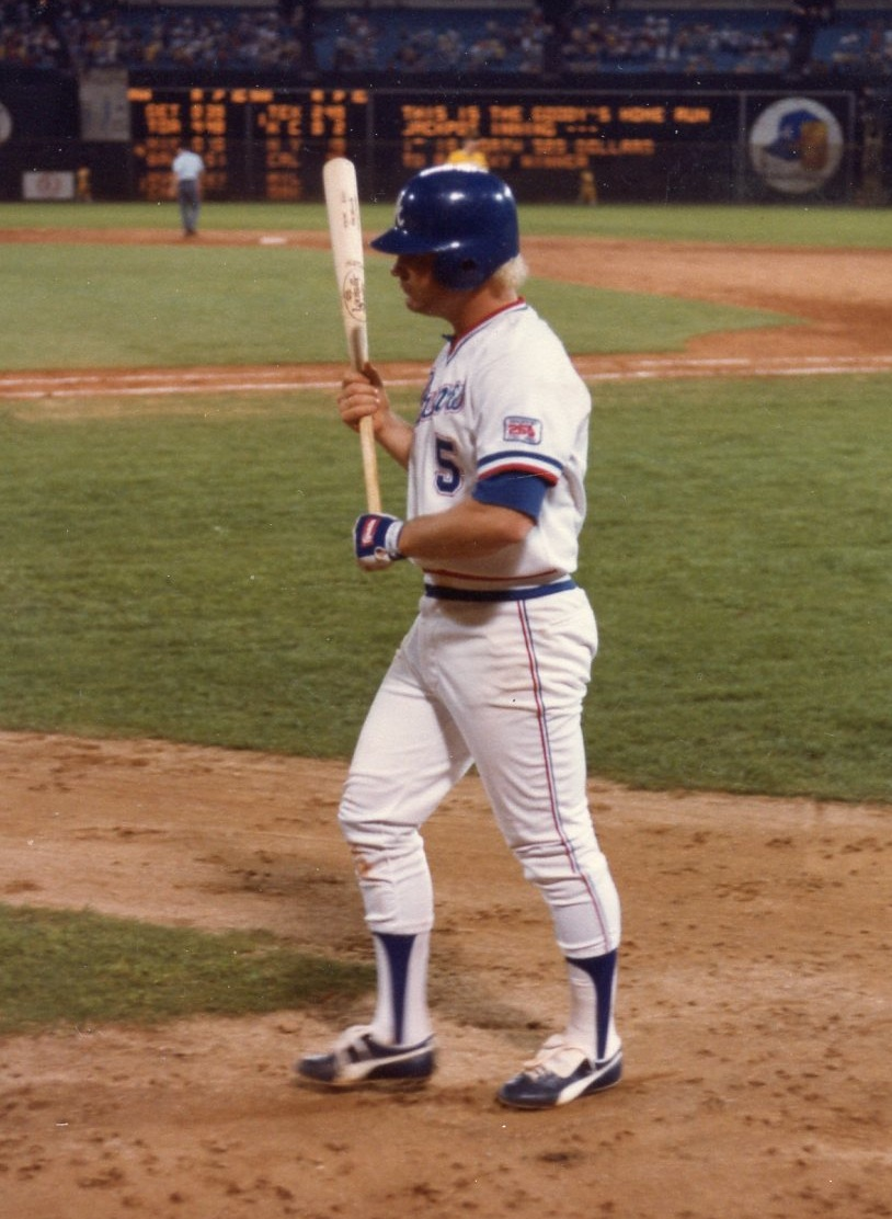 Braves slugger, Bob Horner. Circa 1980